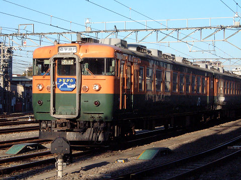 Special train for "Shugaku-ryoko" (school trip), on JR Nambu line bound for Nikko. At Nakahara Denshaku (Nakahara Electric Car Depot) in Nakahara, Kawasaki, Kanagawa, Japan.